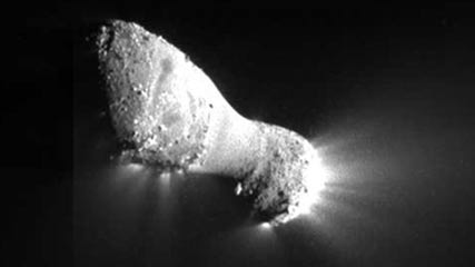 Comet Hartley 2, taken by NASA on November 4, 2010, by Deep Impact spacecraft